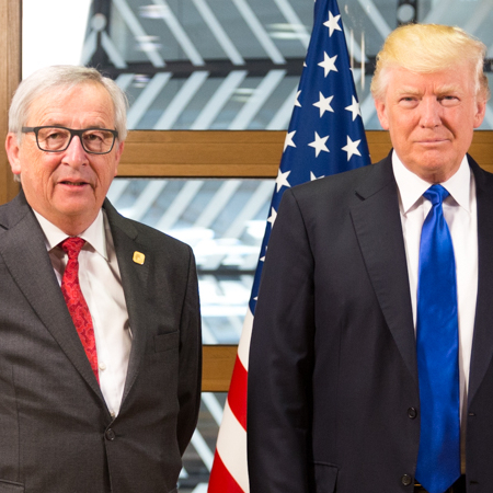 Donald Trump visit to Belgium, May 2017